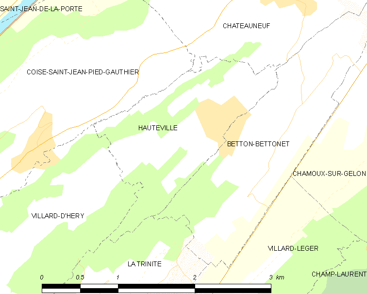 Map of French municipality